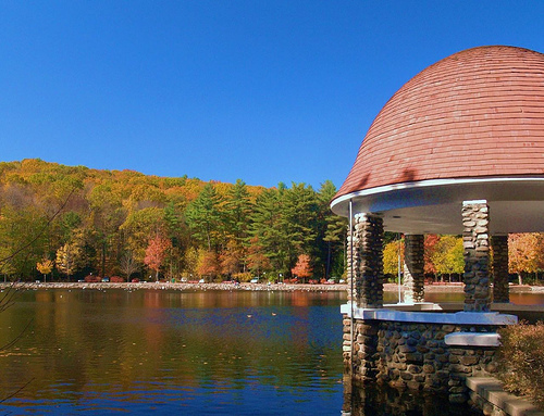 Coggeshall Park, Fitchburg, Massachusetts